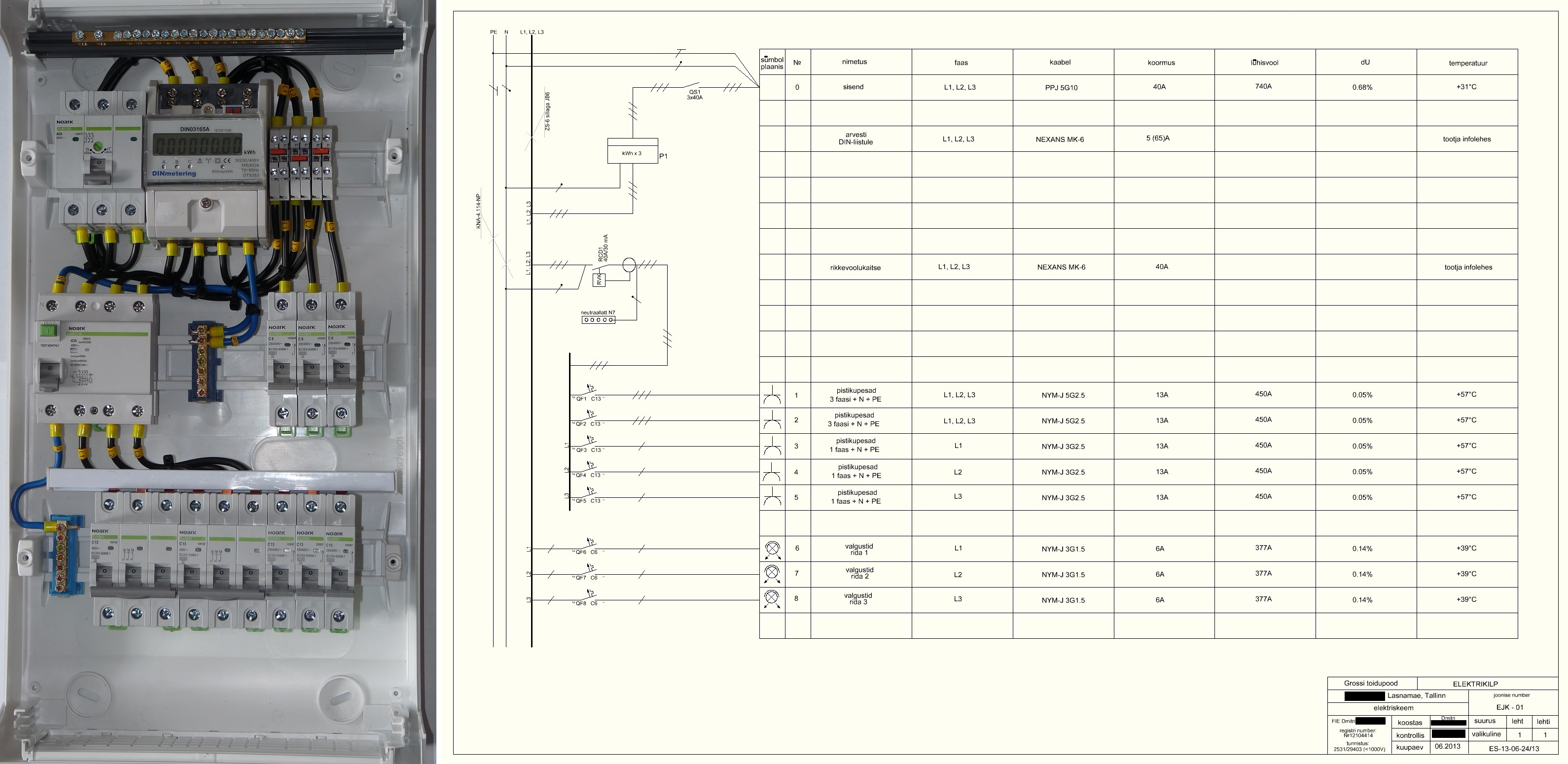 fuse box with one-line diagram